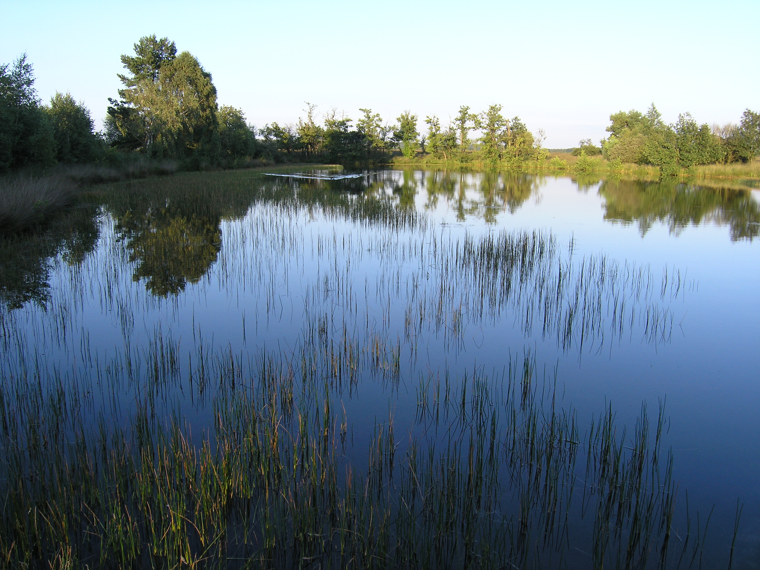 Hoge Veluwe - Deelense Was @ 11 August 2007 evening (wrong metadata due to wrong camera setting)